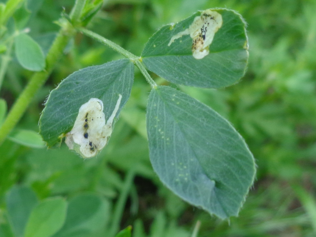 Agromyza nana.